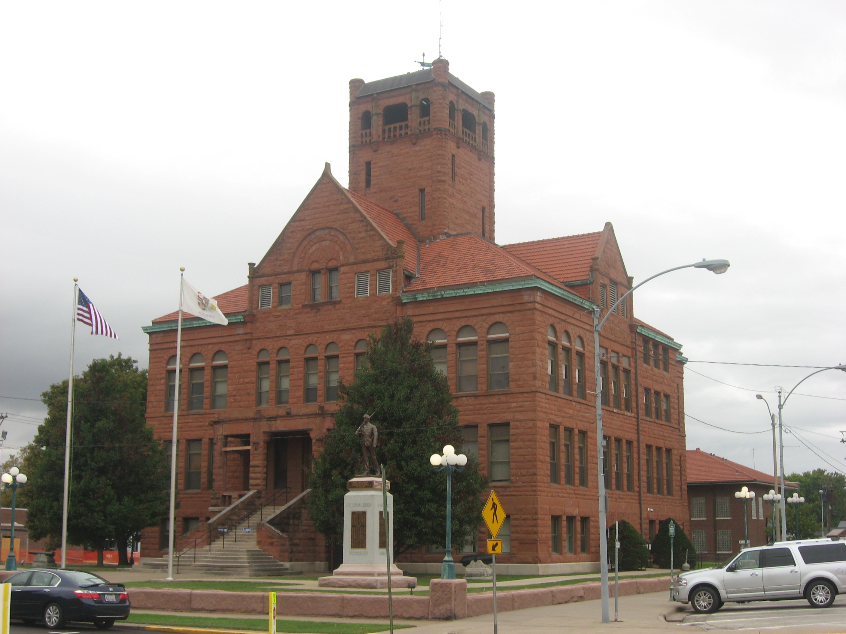 View from the southeast of the Warren County Courthouse, located on the northwestern quadrant of the public square in Monmouth, Illinois, United States. Built in 1895, it is part of the Monmouth Courthouse Commercial Historic District, a historic district that is listed on the National Register of Historic Places.